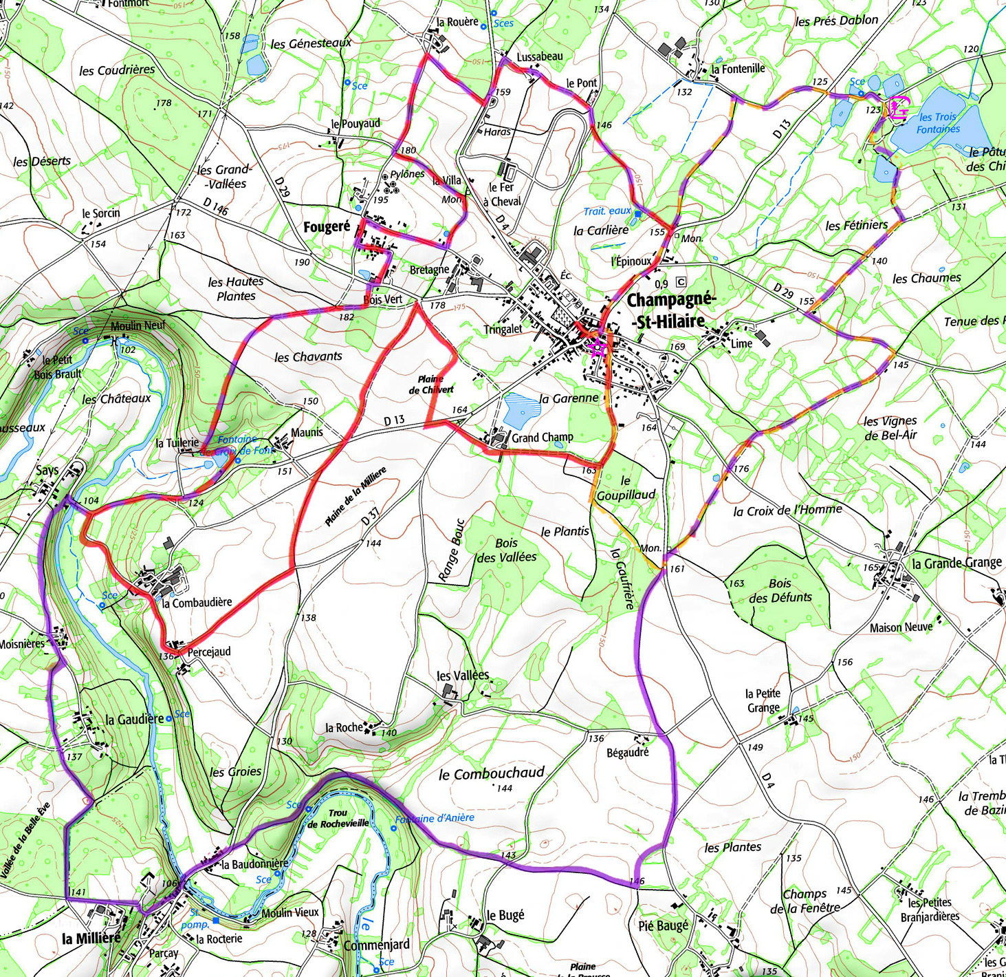 Carte des promenades autour de Champagné ST. Hilaire